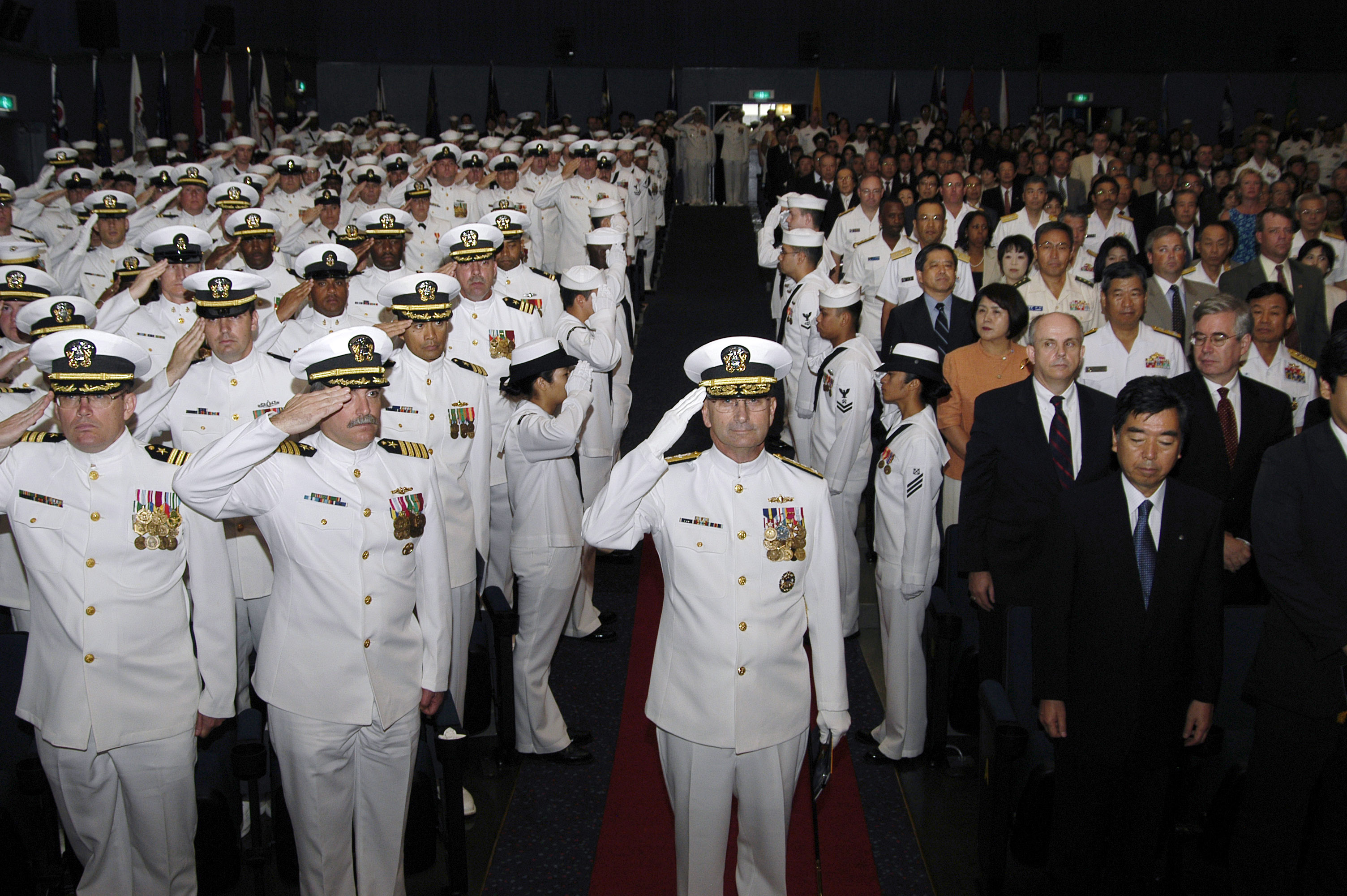 Yokosuka, Japan (Sept. 12, 2006) - Vice Adm. Doug Crowder salutes as he arrives at the U.S. Seventh Fleet change-of-command ceremony. Crowder assumed command from Vice Adm. Jonathan Greenert Sept. 12, 2006. Operating in the Western Pacific and Indian Ocean, the U.S. Seventh Fleet is the largest of the forward-deployed U.S. fleets, with 40-50 ships, 120 aircraft and approximately 20,000 Sailors and Marines assigned at any given time. U.S. Seventh Fleet is embarked aboard USS Blue Ridge (LCC 19). U.S. Navy photo by Mass Communication Specialist 1st Class Terry Spain (RELEASED)